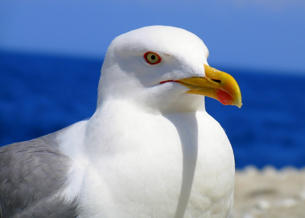 Larus (this is Larus michahellis, a Yellow-legged Gull), taken in Elba Island, Italy